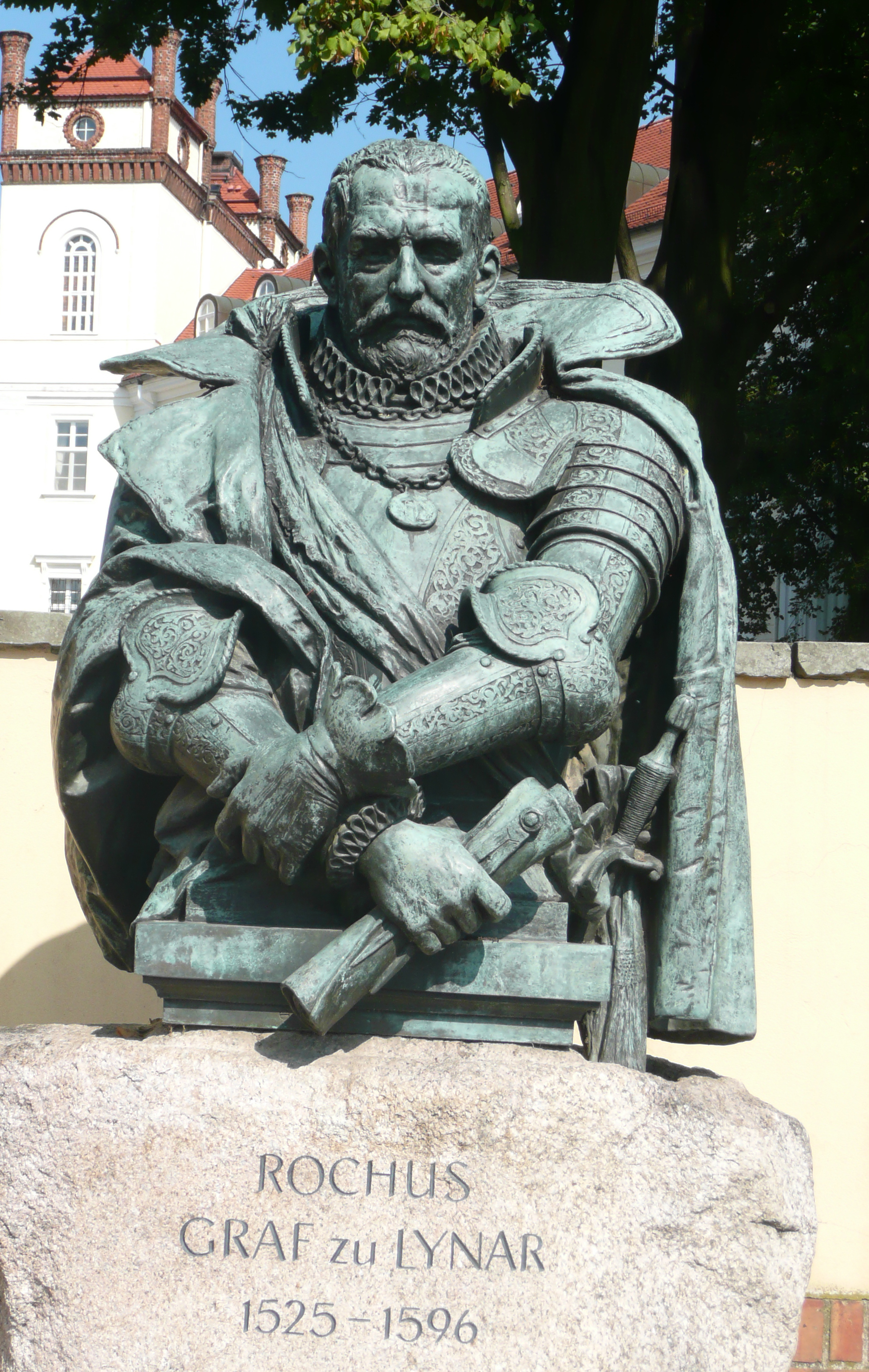 Graf Rochus zu Lynar - Statue in Lübbenau (Spreewald)/Germany